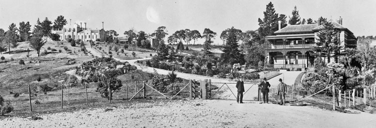 Photograph taken in 1915 (Source: FCRPA) : Tremearne House and the Victorian School of Forestry